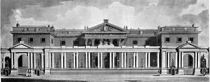 An early 19th century sketch of the entrance front of Carlton House in London.